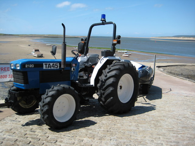 Ford 2120 tractor at Appledore Life Boat Station, near to Appledore, Devon, Great Britain. Tractor used by the Appledore Life Boat Station to launched and retrieve the inflatable life boat.